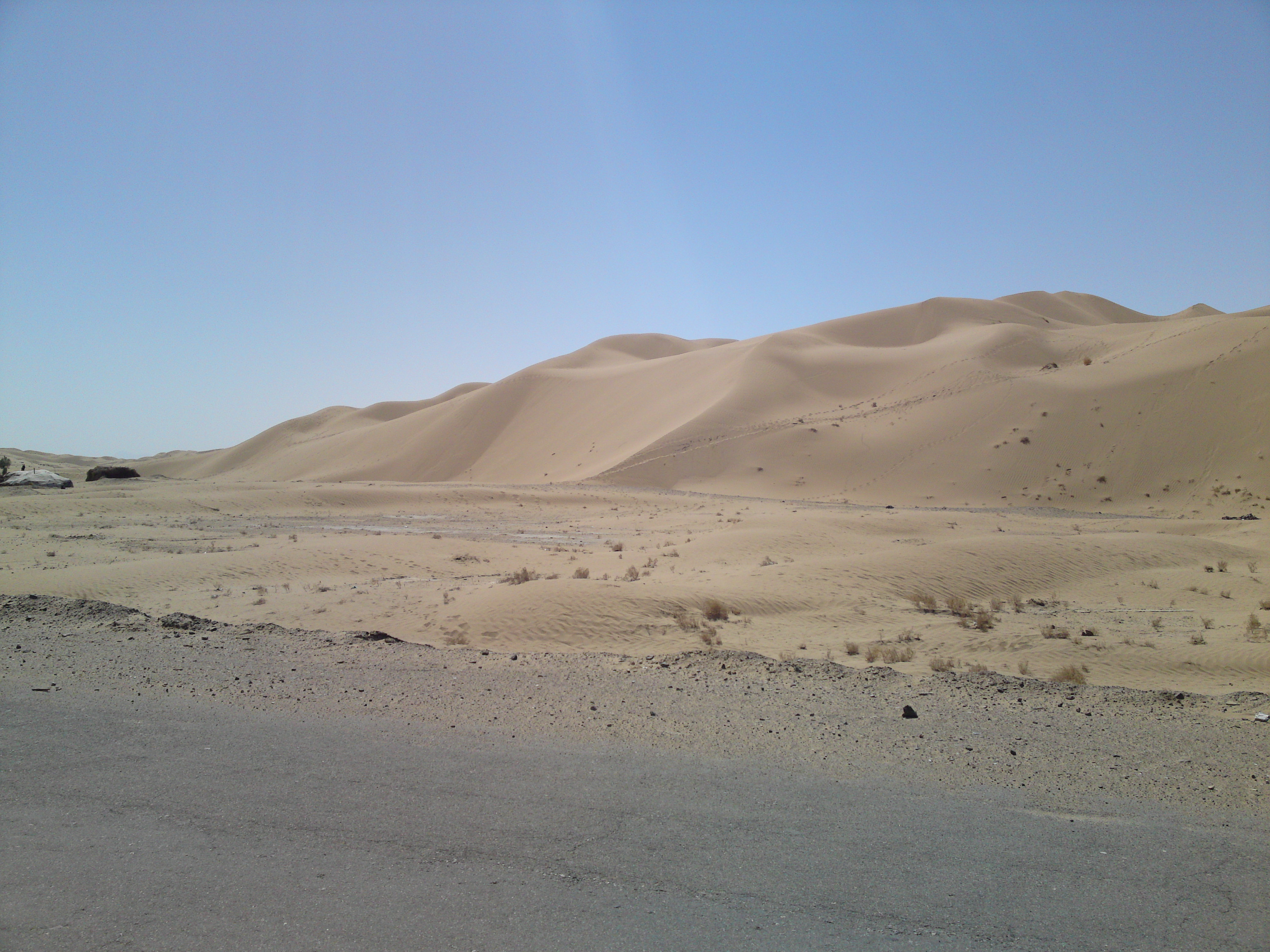 Sand Mountains